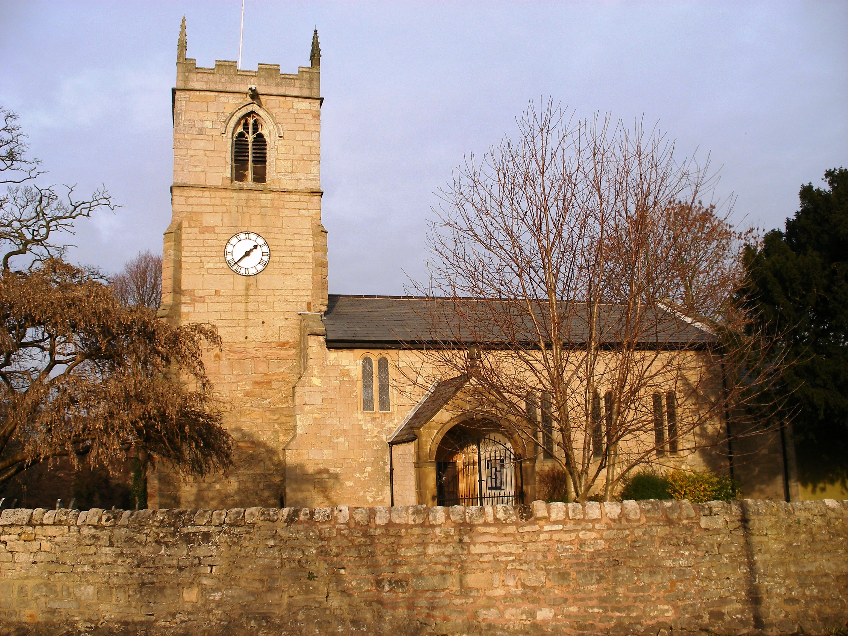 The south side of the church of Saint John the Baptist, Clowne, Derbyshire, England.